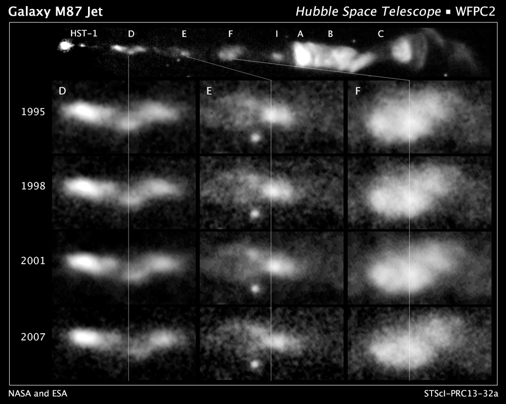 This sequence of images, taken by the NASA/ESA Hubble Space Telescope over a period of 13 years, reveals changes in a black-hole-powered jet of hot gas in the giant elliptical galaxy M87. The observations show that the river of plasma, travelling at nearly the speed of light, may follow the spiral structure of the black hole's magnetic field, which astronomers think is coiled like a helix. The magnetic field is believed to arise from a spinning accretion disc of material around a black hole. Although the magnetic field cannot be seen, its presence is inferred by the confinement of the jet along a narrow cone emanating from the black hole. The visible portion of the jet extends for some 5000 light-years. M87 resides at the centre of the neighbouring Virgo cluster of roughly 2000 galaxies, located 50 million light-years away. The images are part of a time-lapse movie that reveals changes in the jet from 1995 to 2007. They were taken by Hubble's Advanced Camera for Surveys in 2006 and the Wide Field Planetary Camera 2 in 1995, 1998, 2001, and 2007.